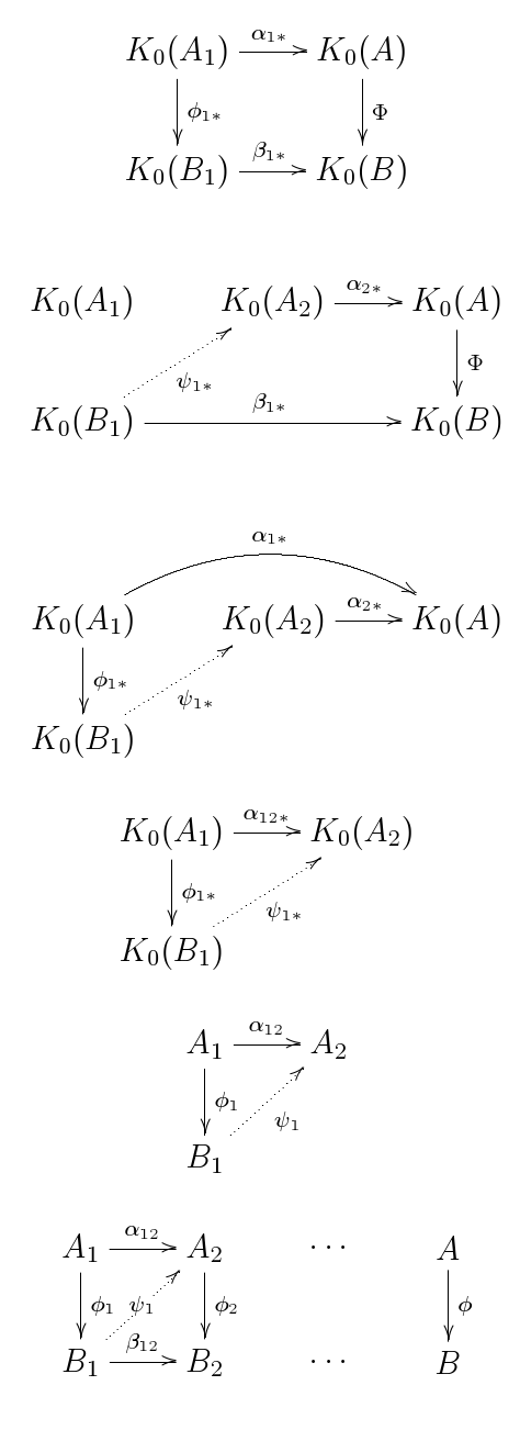 Commutative diagram for Elliott's intertwining argument